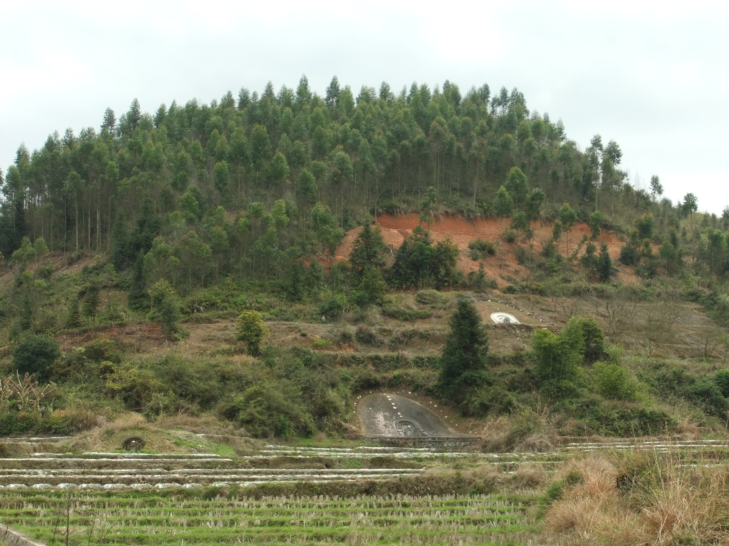 Hukeng Village (Hukengcun), the main settlement of Hukeng Town. Traditional hillside tombs south of town. They are not quite like the "turtle-back tombs" of the Fujian coast, but certainly are related.